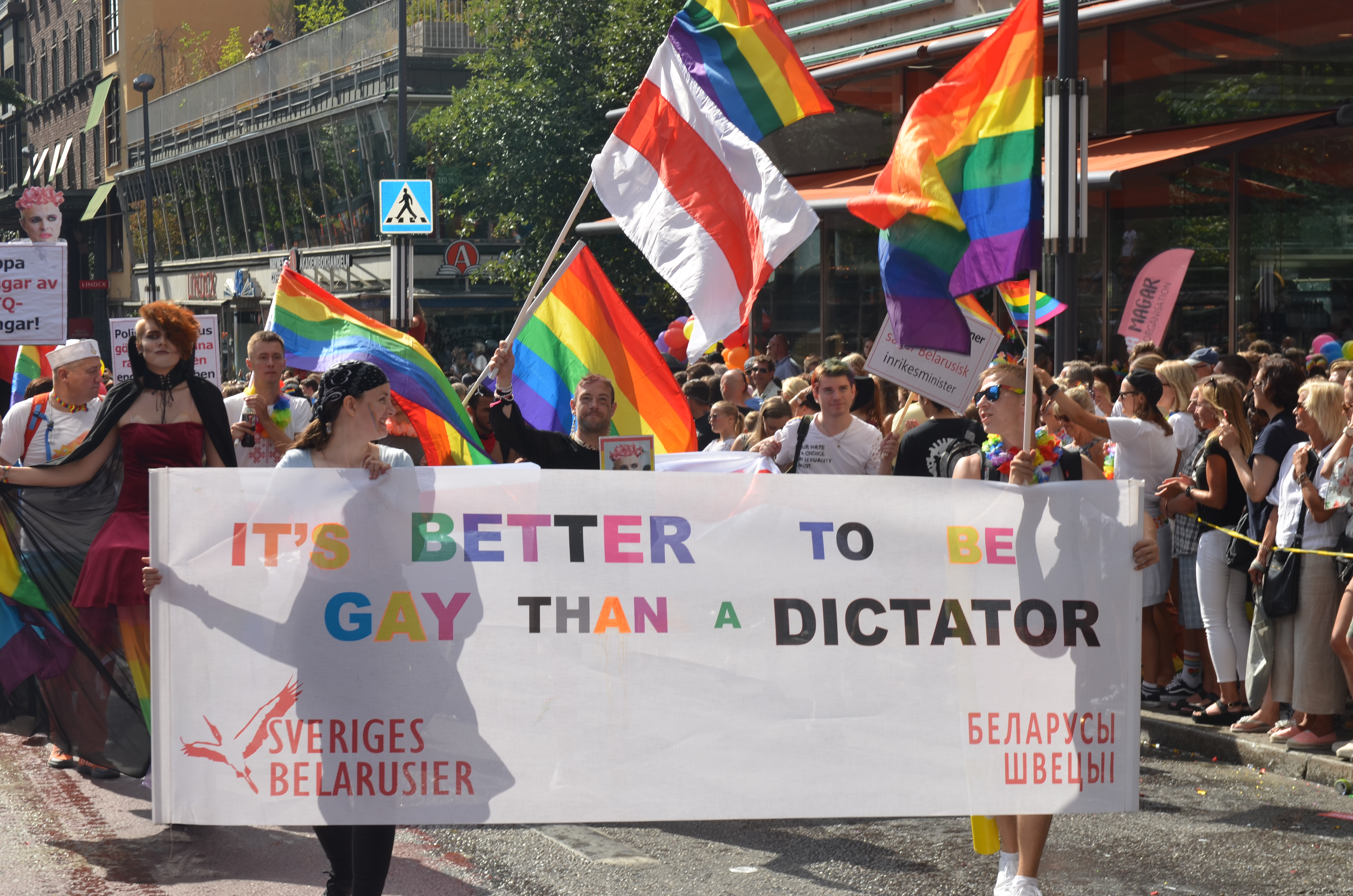 Europride parade Stockholm 2018